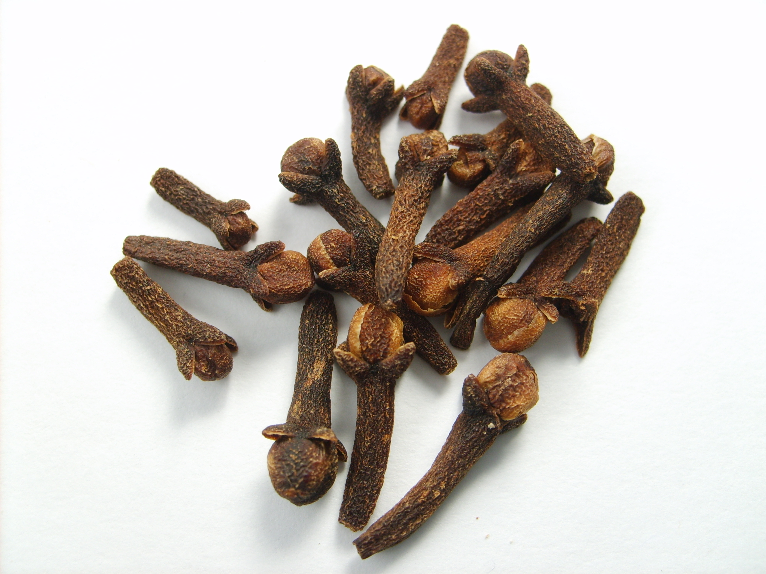 Cloves.